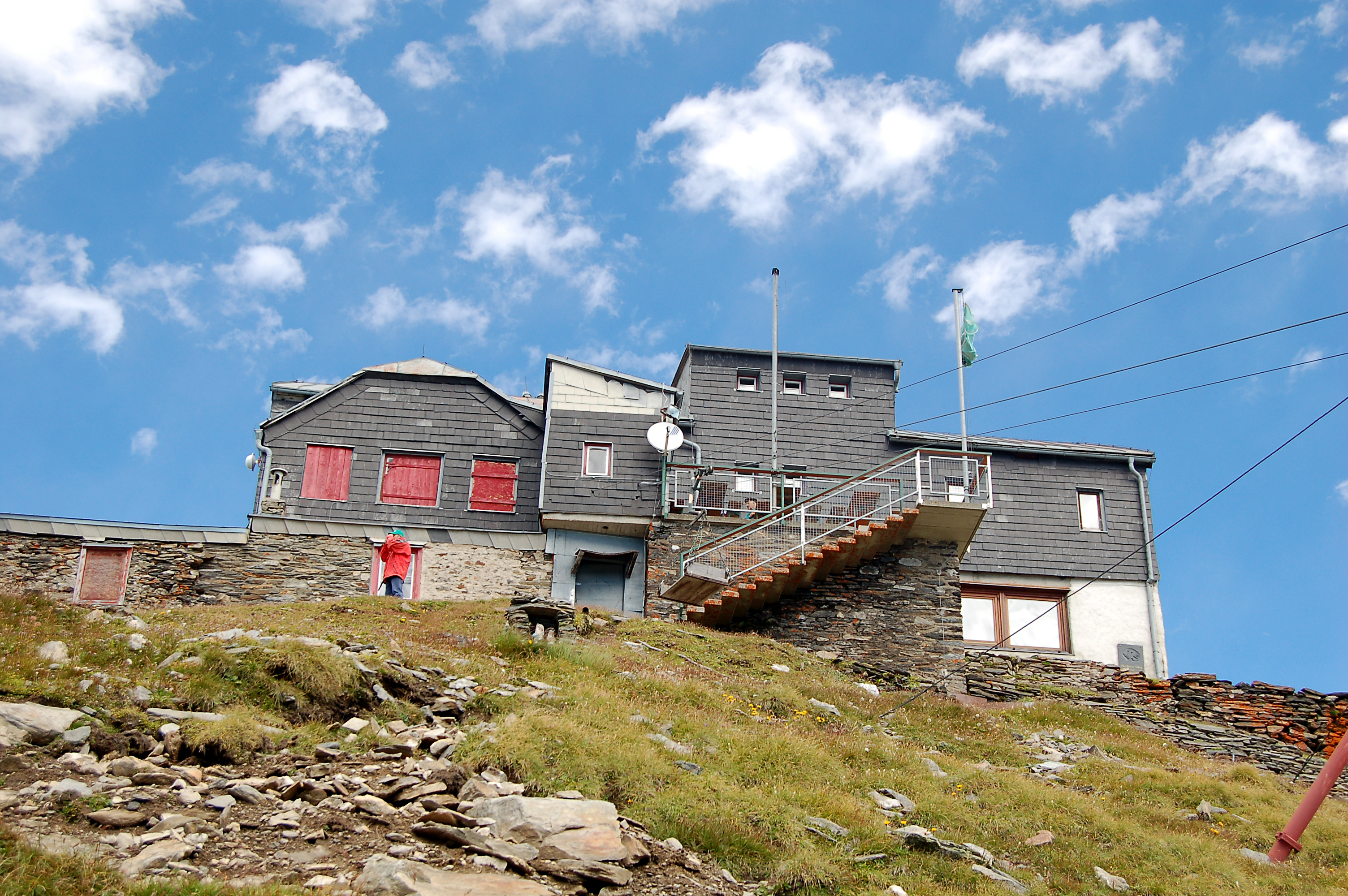 Hannoverhaus, a mountain hut in the Ankogel group of the Hohen Tauern at the border of Salzburg and Carinthia. Elevation 2719m.